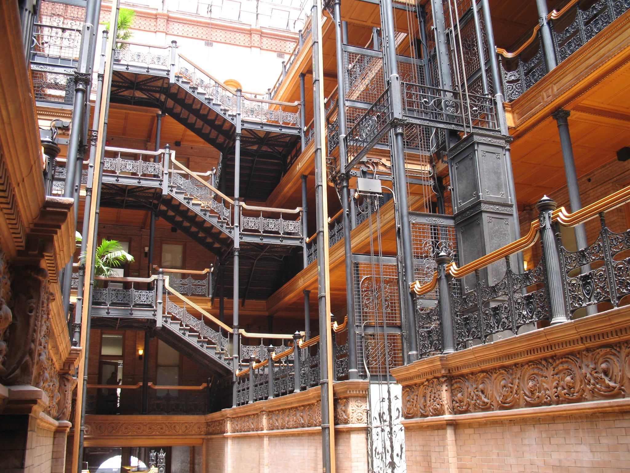 Staircases and atrium interior of the Bradbury Building, Downtown Los Angeles. Where parts of "Blade Runner" were filmed.